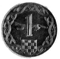 Banknote of 1 kn, issued in 1941. Front side.